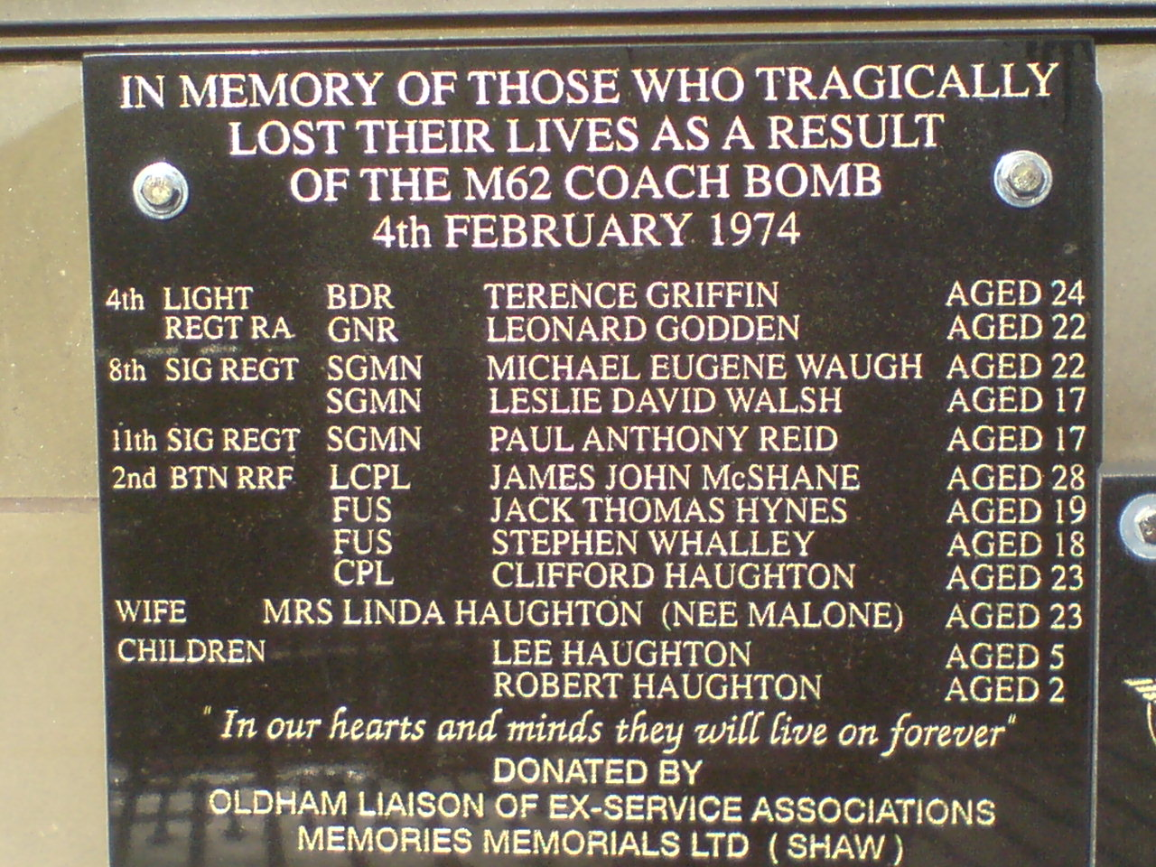 Memorial plaque depicting the names of the casualties of the 1974 M62 coach bomb. Plaque unveiled in Oldham in 2010